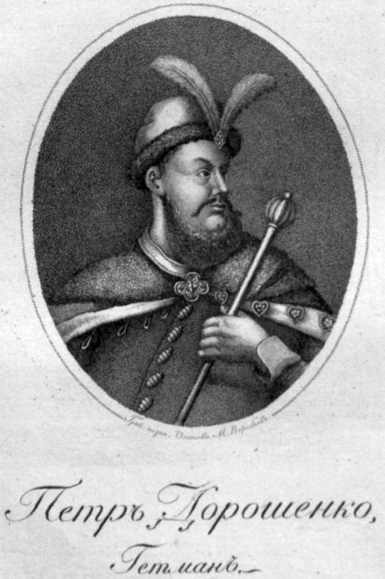 Petro Doroshenko